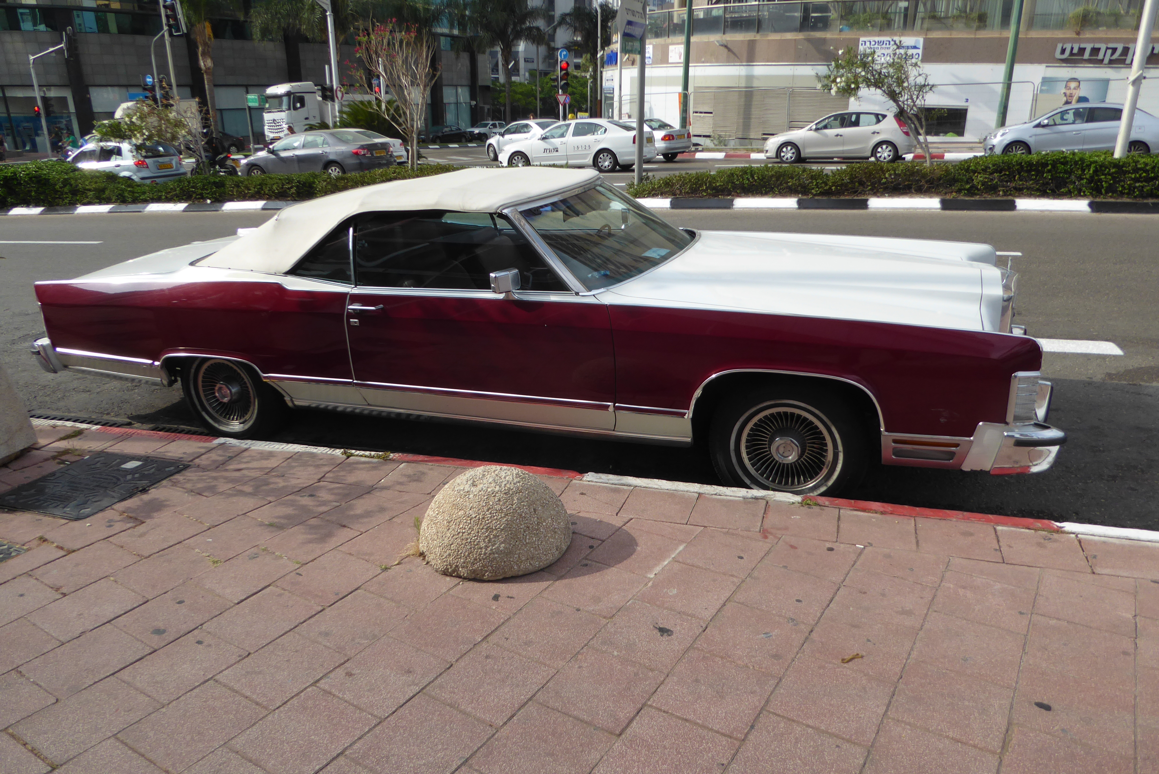 Diamond Exchange District Rmat Gan